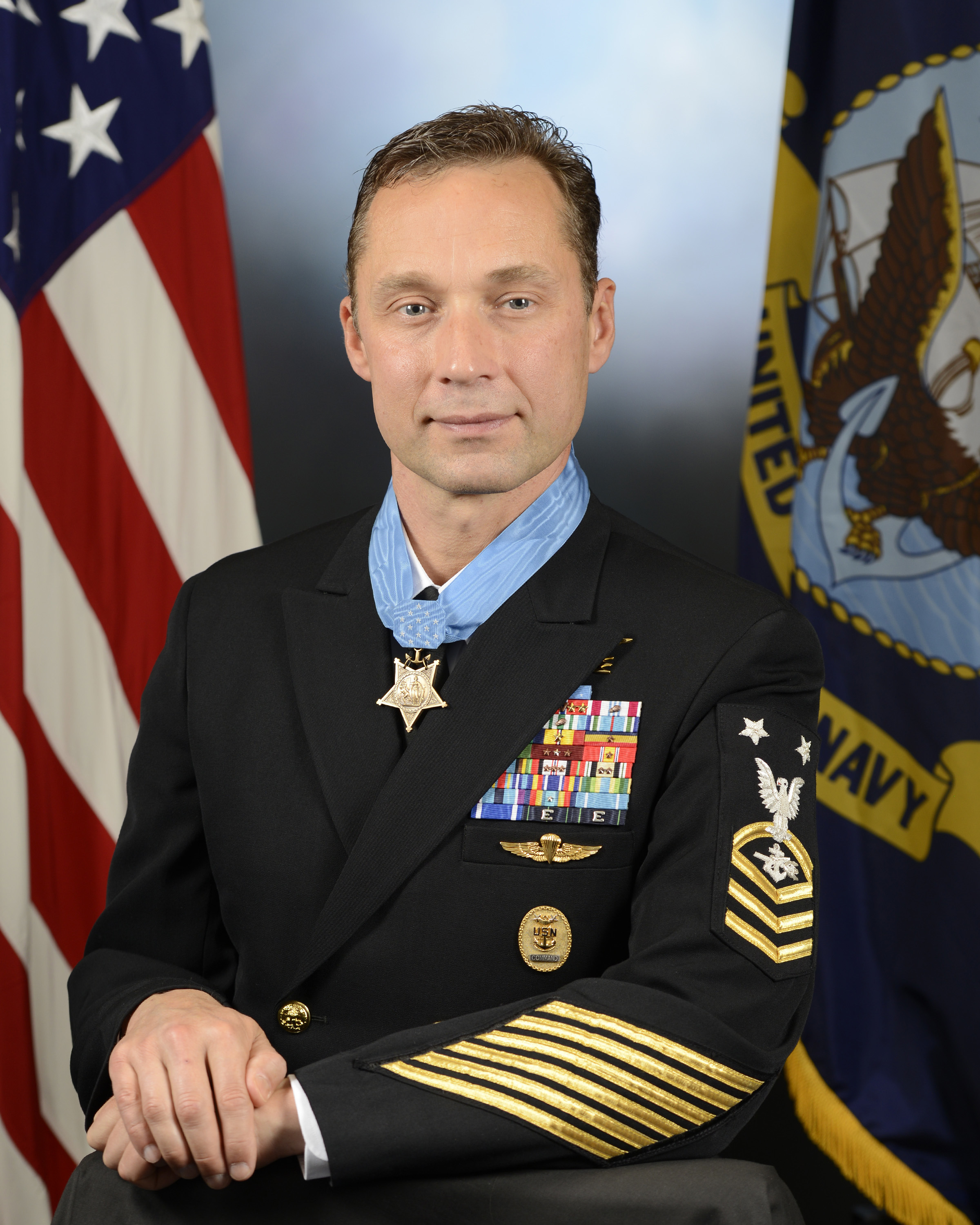 180525-A-SS368-007 WASHINGTON (May 25, 2018) An official portrait of retired Master Chief Special Warfare Operator (SEAL) Britt K. Slabinski taken May 25, 2018 at the Pentagon. President Donald J. Trump awarded the Medal of Honor to Slabinski during a White House ceremony May 24, 2018 for his heroic actions during the Battle of Takur Ghar in March 2002 while serving in Afghanistan. Slabinski is being recognized for his actions while leading a team under heavy effective enemy fire in an attempt to rescue SEAL teammate Petty Officer 1st Class Neil Roberts during Operation Anaconda in 2002. The Medal of Honor is an upgrade of the Navy Cross he was previously awarded for these actions. (U.S. Navy photoby Monica King/Released)